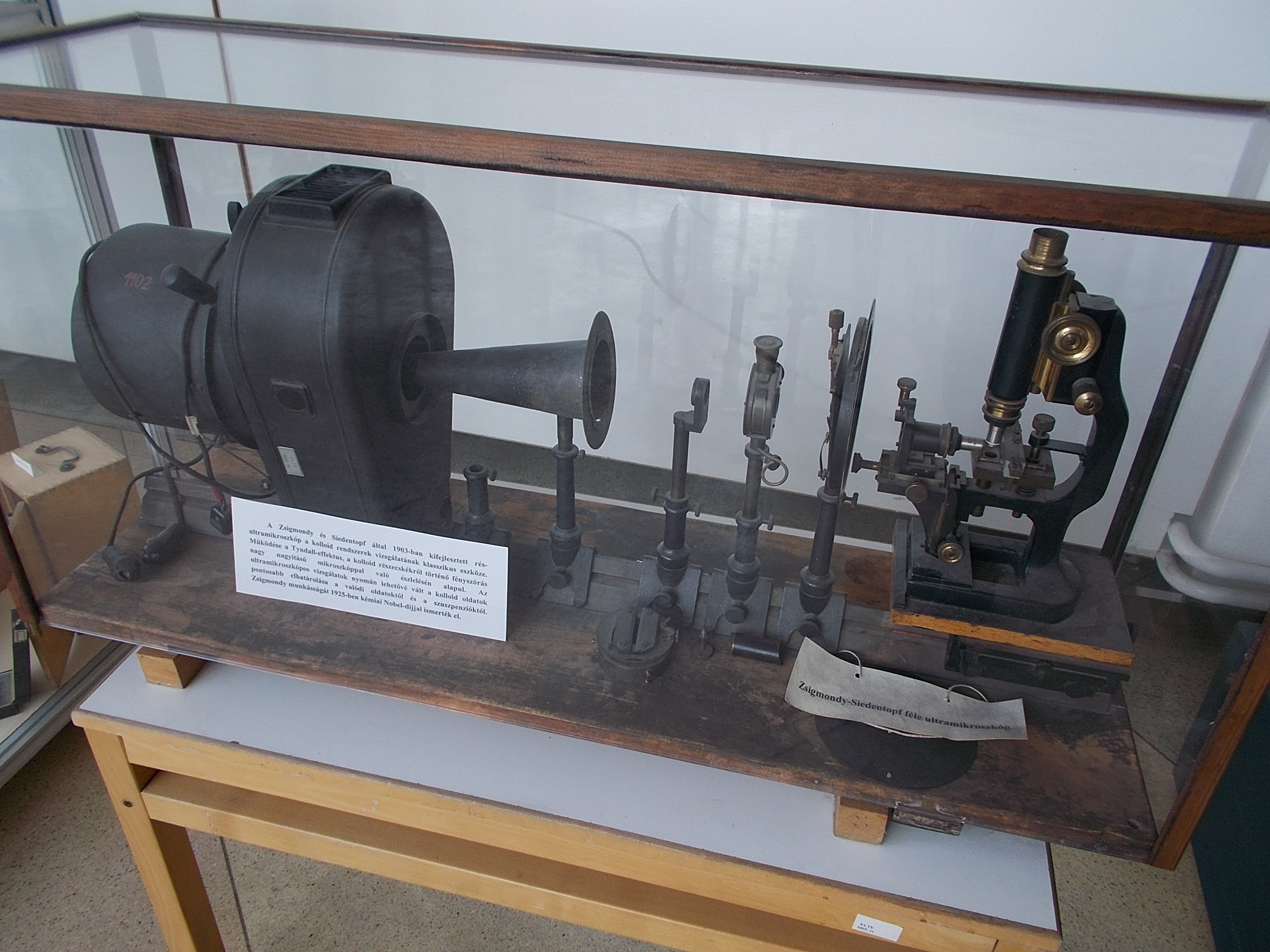 Eötvös Loránd University Faculty of Science (ELTE-TTK). Ground floor exhibition. Ultramicroscope. - Pázmány Promenade, Lágymányos neighborhood, Budapest District XI. Hungary.